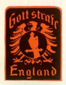 "Gott strafe England" illustration from Germany, The Next Republic?, by Carl W. Ackerman, published 1917.